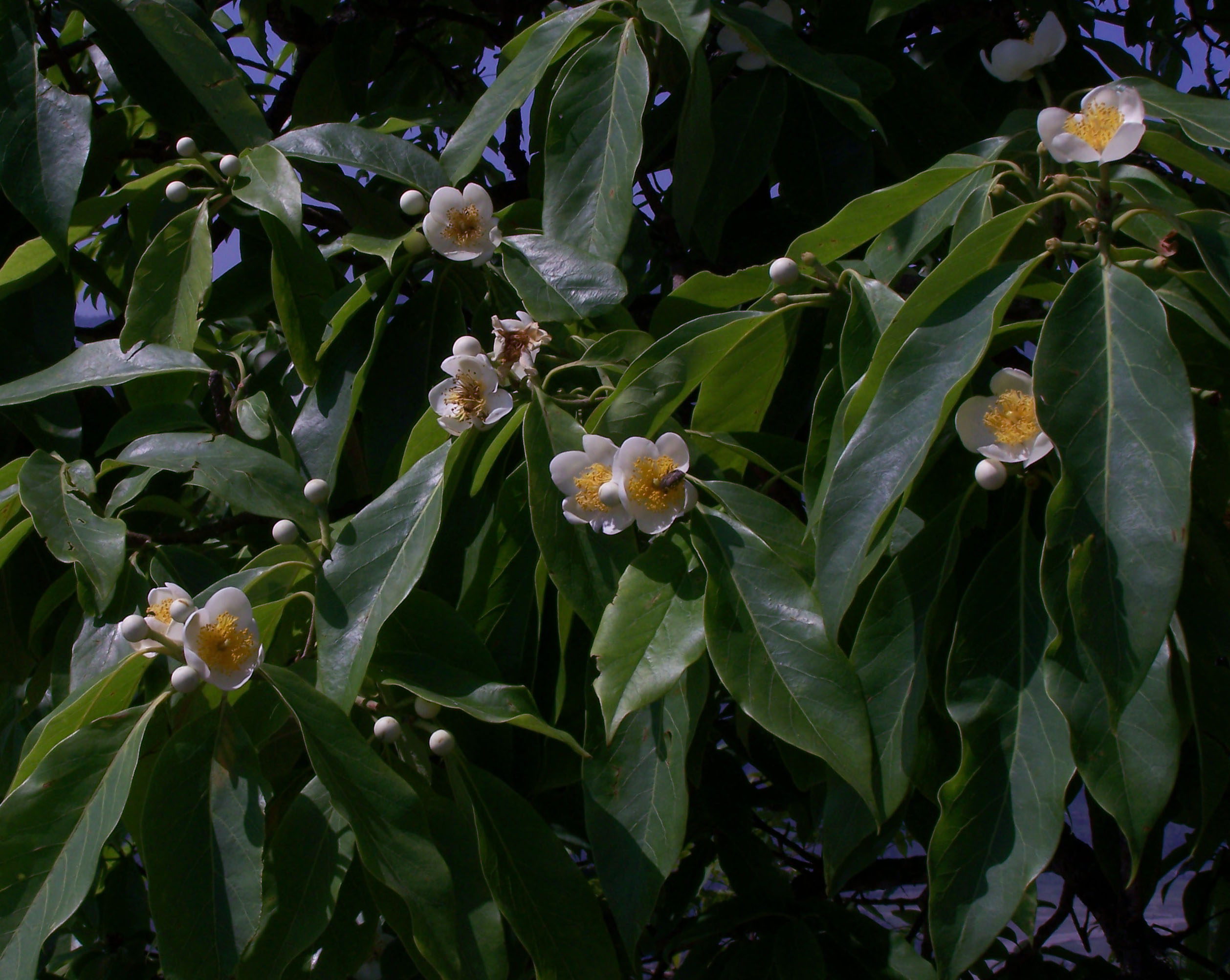 Schima wallichii (Needlewood Tree). May, 1100 m, near Pokhara, Nepal.